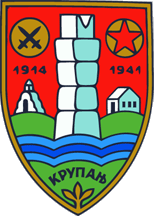 Coat of Arms of the city and municipality of Krupanj in Serbia